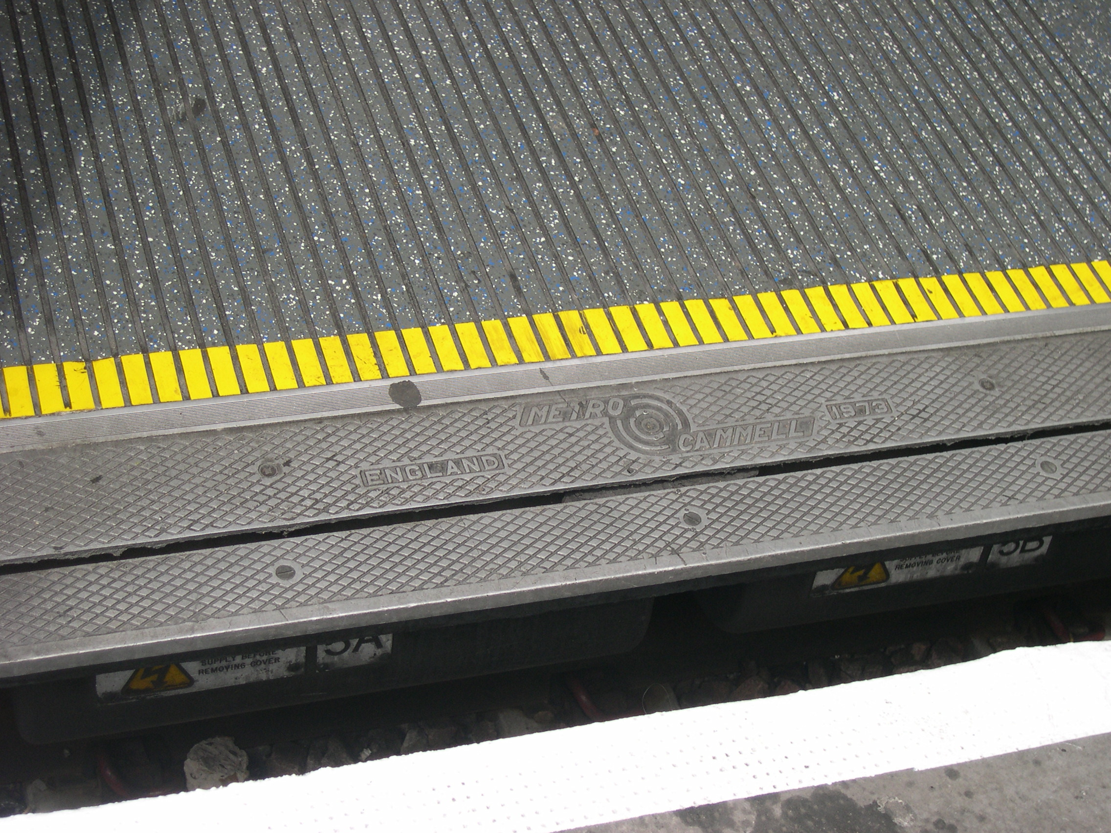 Manufacture's name on the doorway of a 1973 tube stock